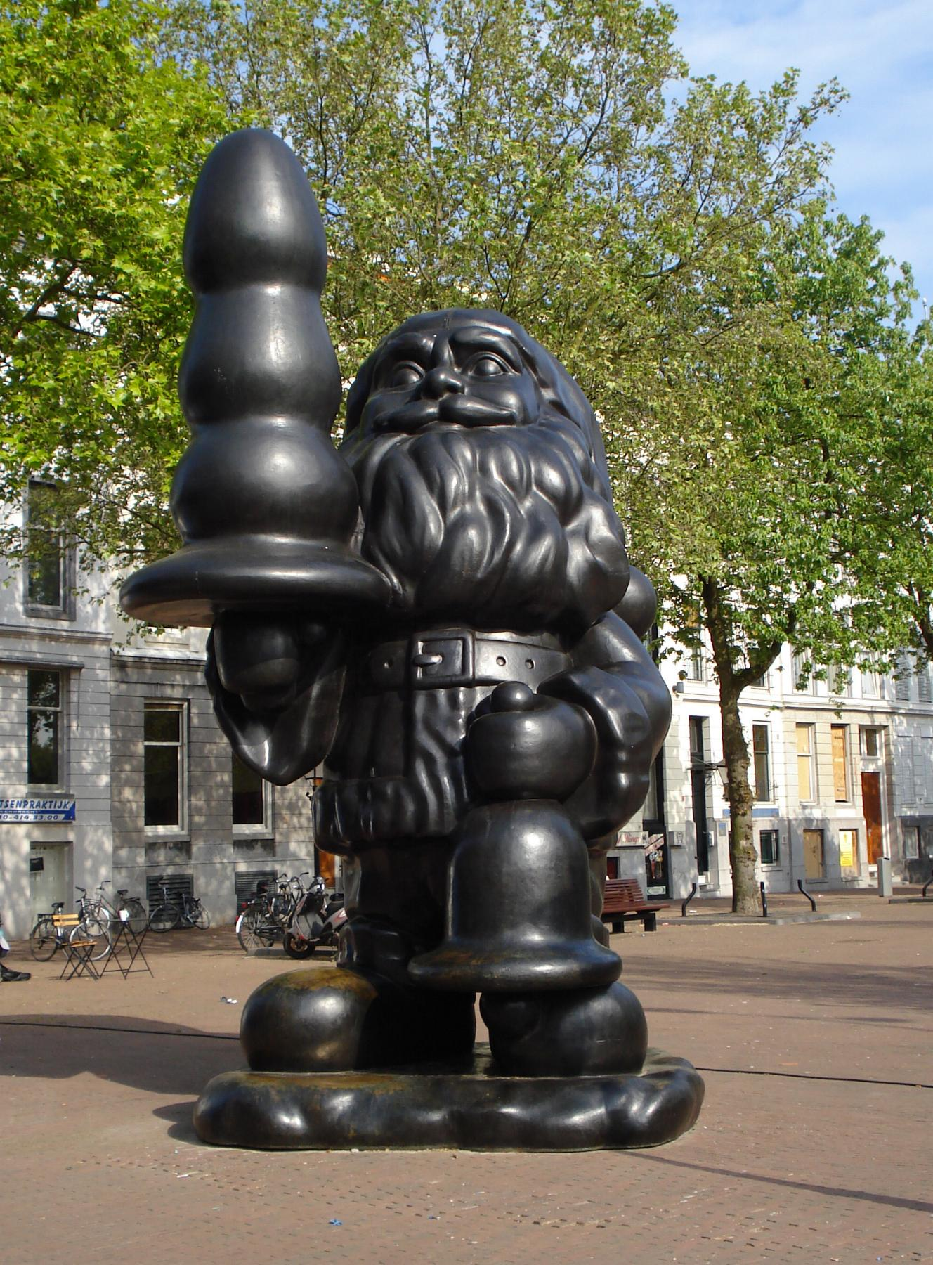 Black sculpture in the shape of a dwarf, presenting a small tree in an abstract shape, reminiscent of a butt plug